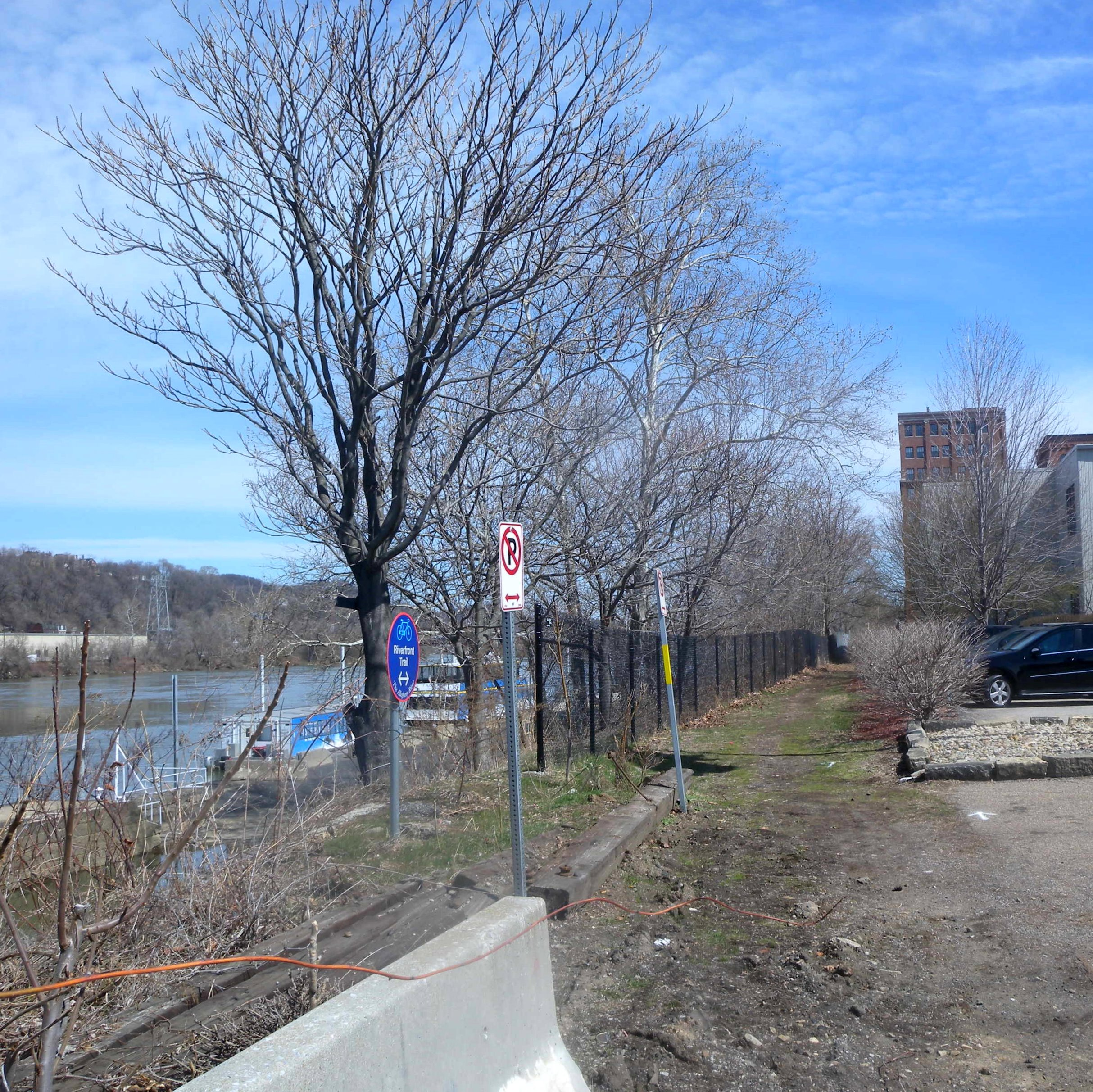 Looking east across 21st St at unpaved portion of the Strip trail on a sunny midday in early spring.